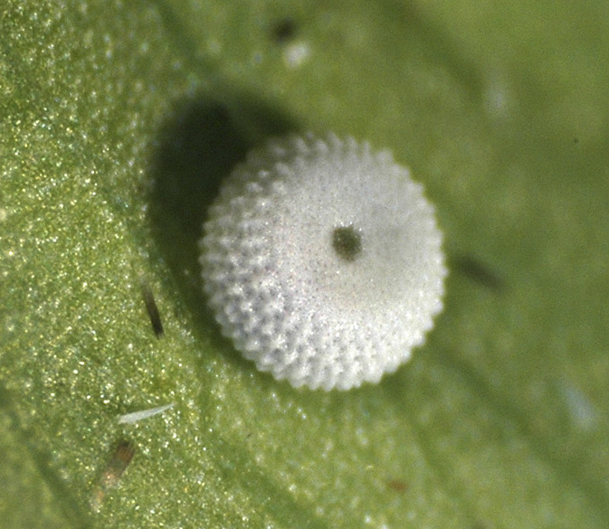 Silver-studded Blue (Plebeius argus) egg